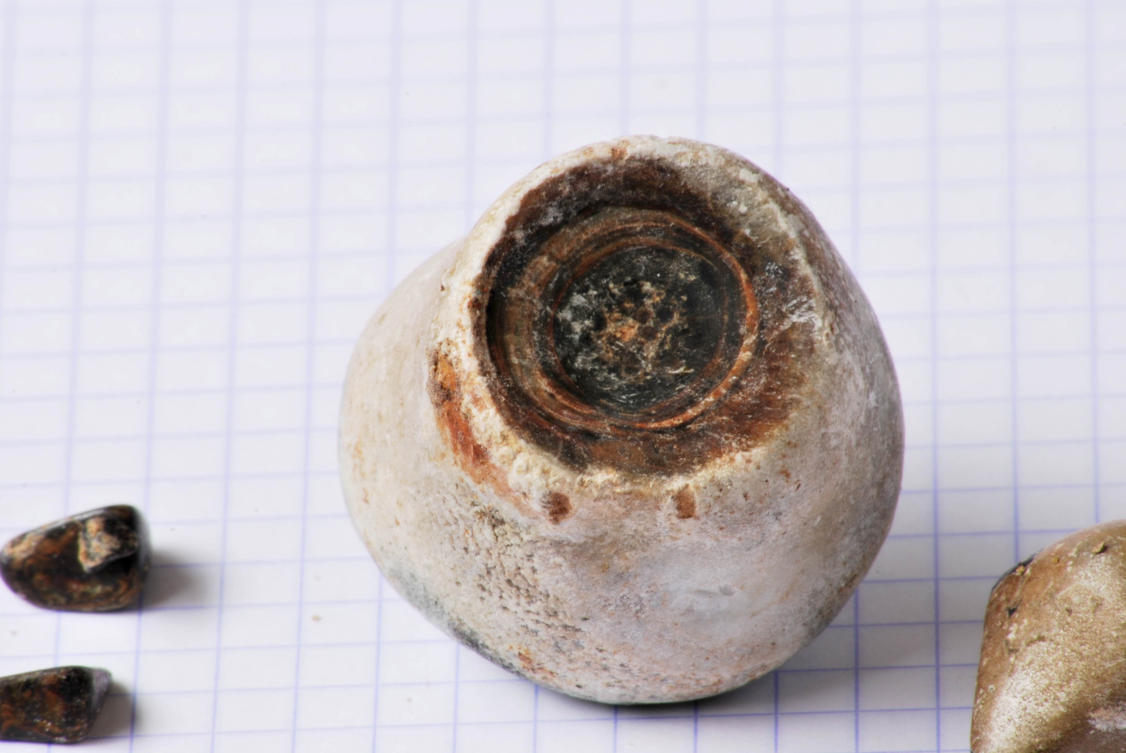 gallstone